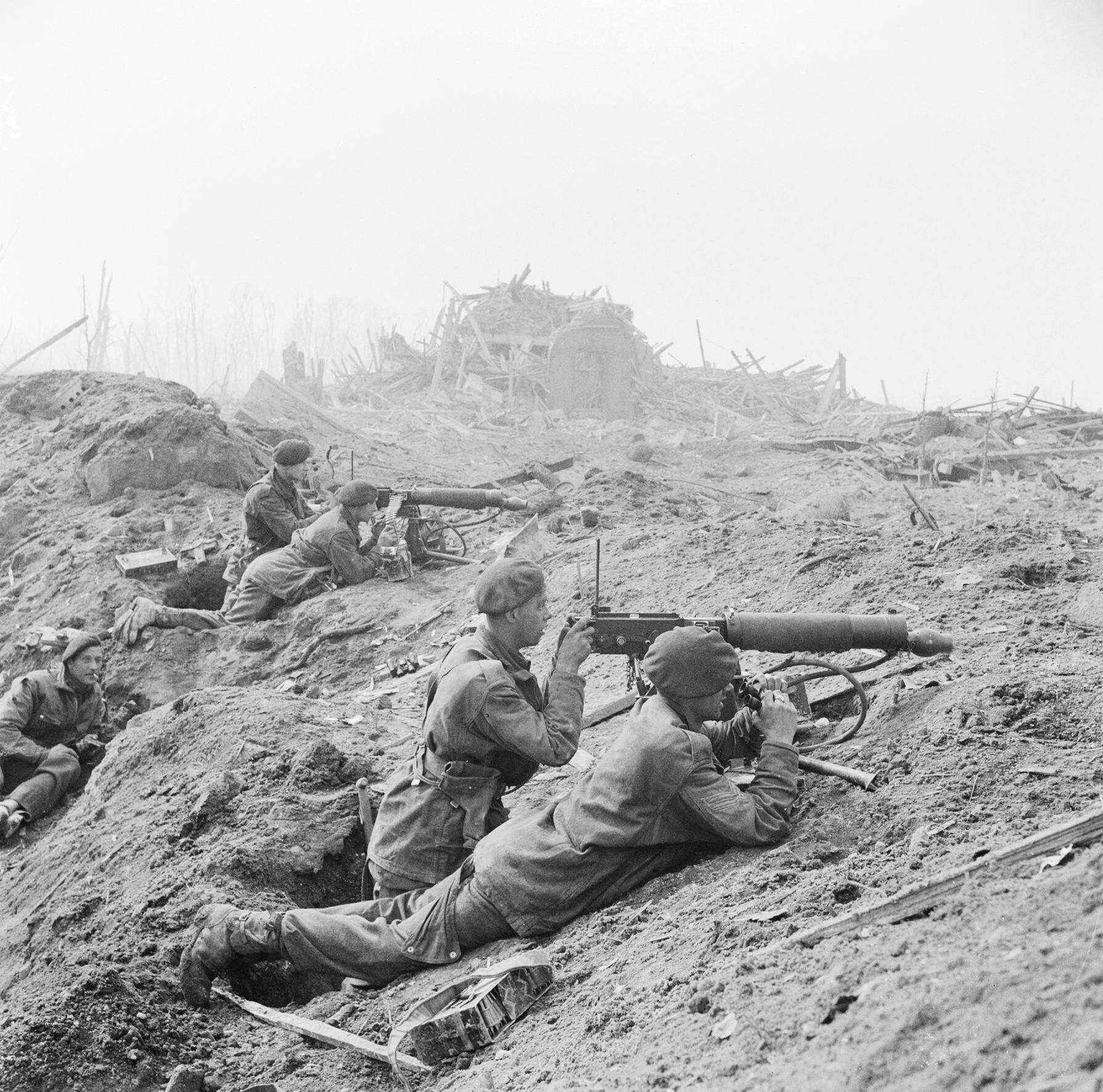 IWM caption : Crossing the Rhine 24 -31 March 1945 : British commandos of the 1st Commando Brigade man two Vickers machine guns in the shattered outskirts of Wesel. The 1st Commandos had formed the spearhead of the British assault by making a surprise crossing in assault craft on the night of 23 - 24 March under a barrage of 1500 guns.